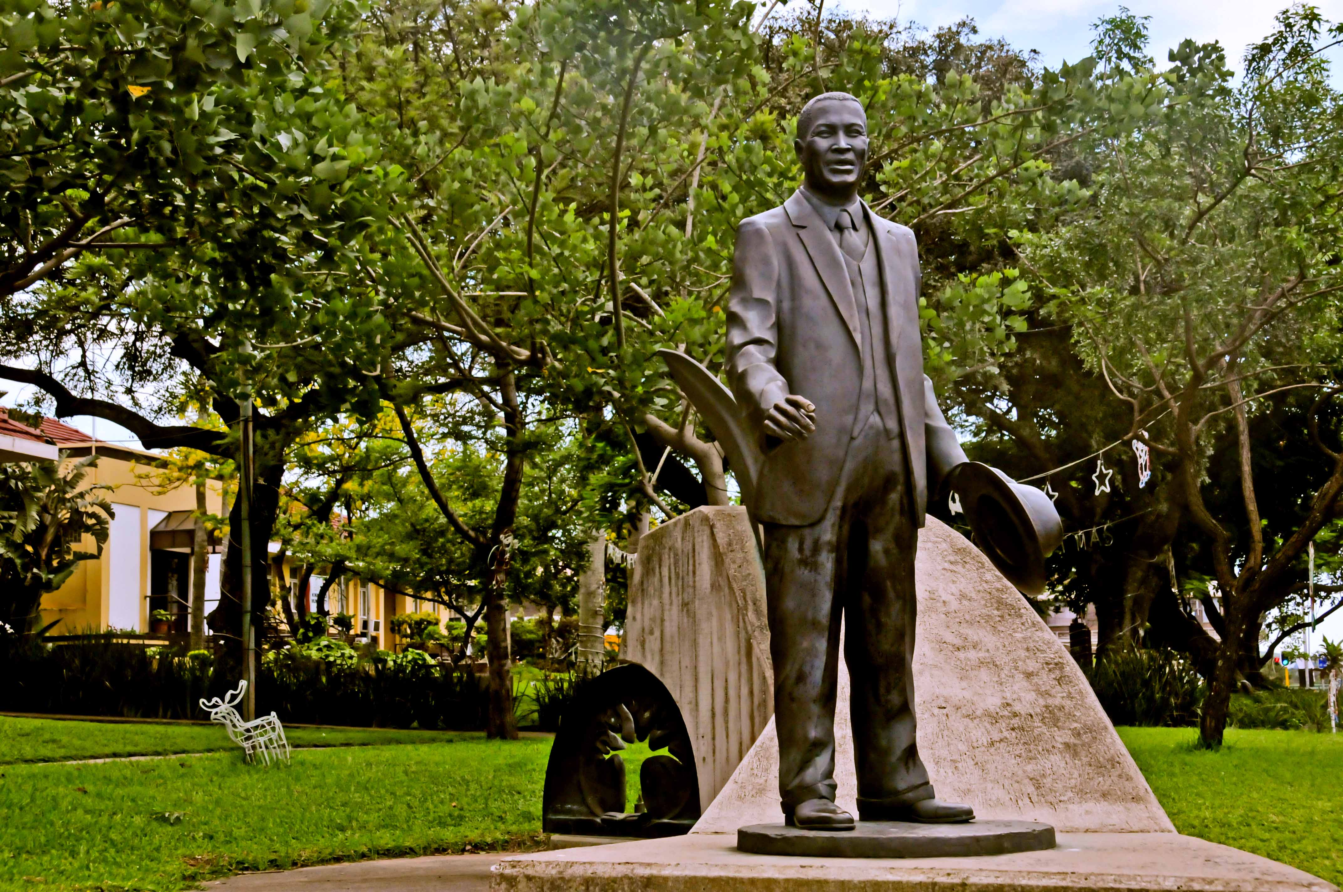 This statue of Chief Albert Luthuli, Nobel Prize winner and President of The African National Congress, in Stanger (now KwaDukuza), KwaZulu-Natal